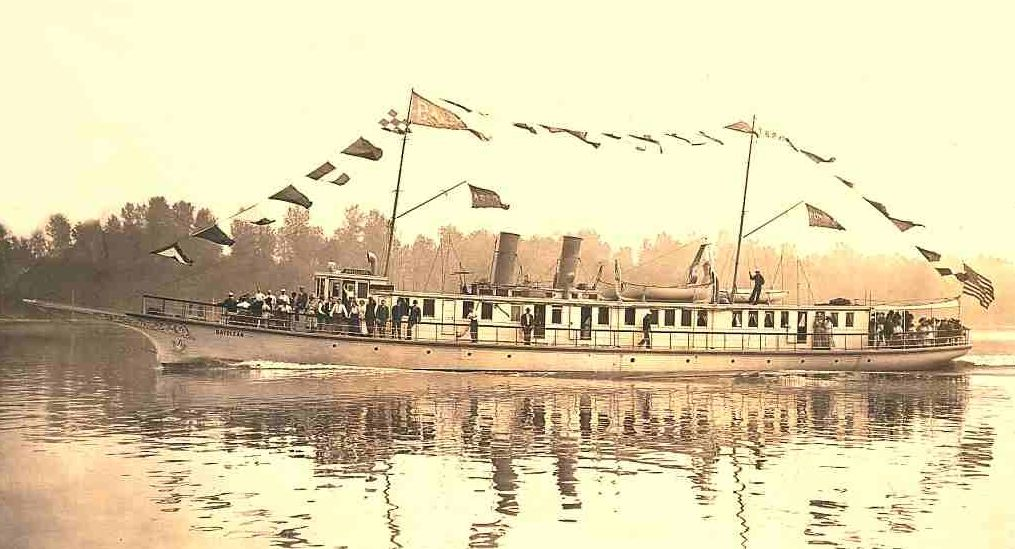 Motor yacht Bayocean. Photo taken sometime between May 27, 1911, when the yacht was launched in Portland, Oregon, and May 21, 1913, when this image was published in the San Francisco Call. The probable location for this photo is on the Willamette River, at or near Portland, and the displayed flags indicate that this was a publicity photo, probably organized as a run-by on the river with a professional photographer on the shore.